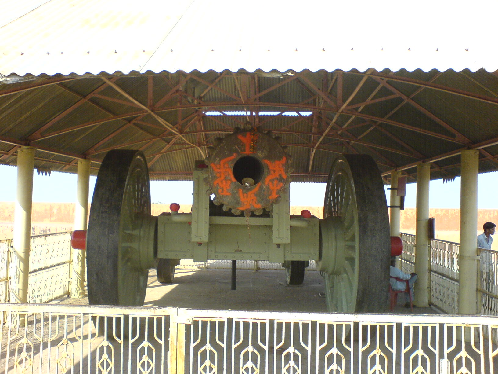 Jaivan Cannon at Jaigarh Fort in Jaipur. The barrel opening has been decorated with orange Hindu symbols, notably three swastikas.